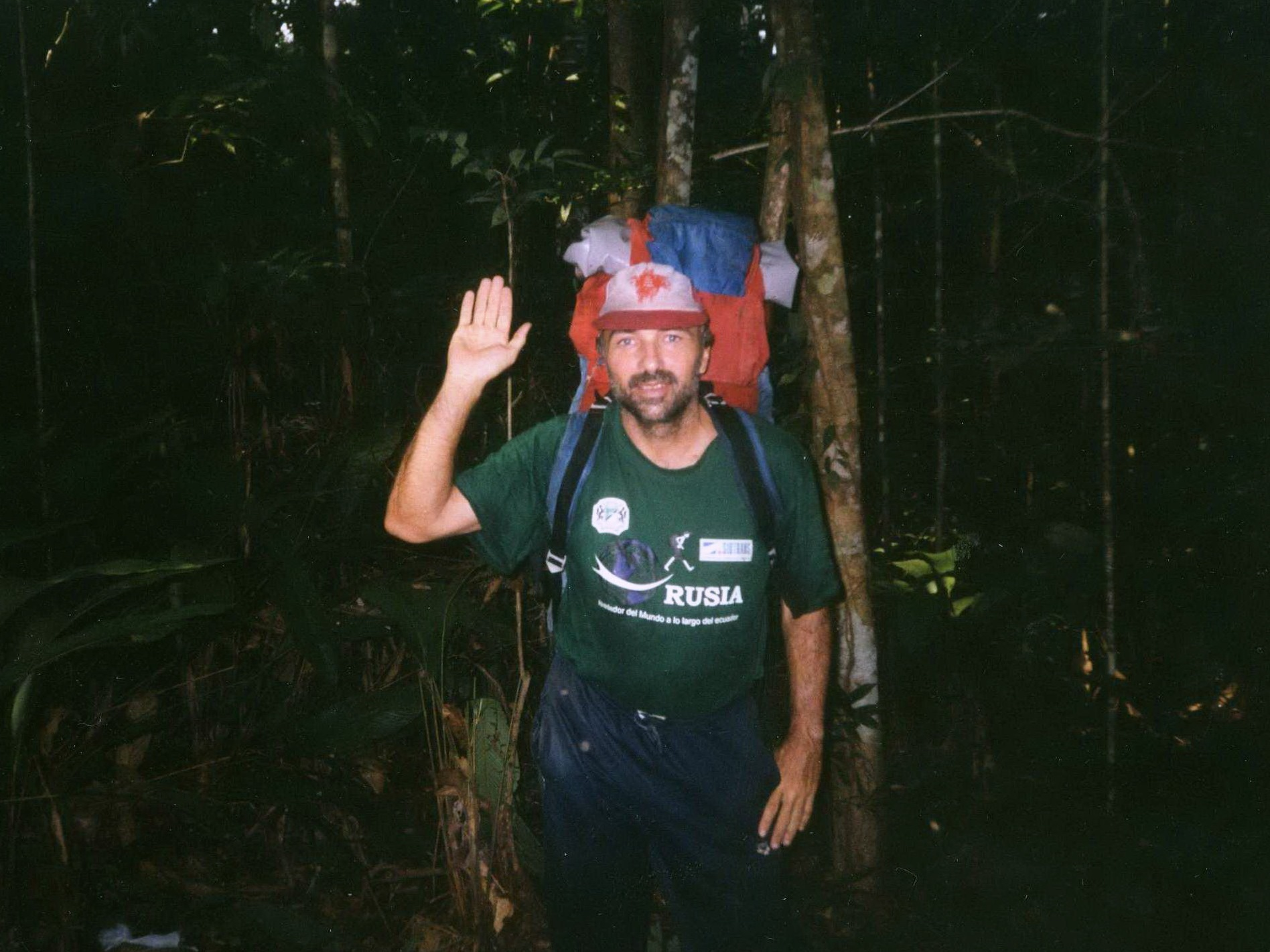 Vladimir Lysenko: on foot in a jungle